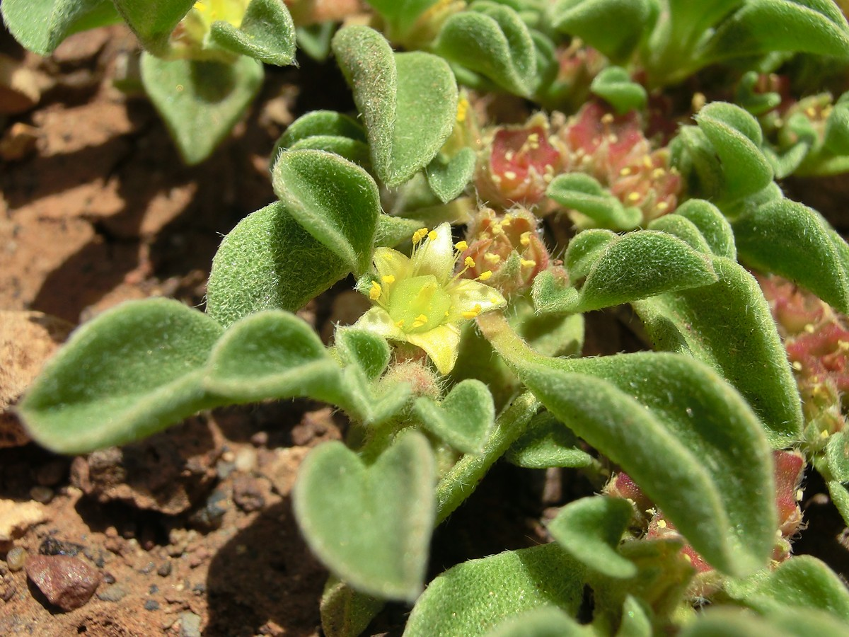 Aizoon canariense, flower. NW Tenerife, Teno Bajo near Punta de Teno, open coastal succulents shrubland, ca. 20 m above sea level.